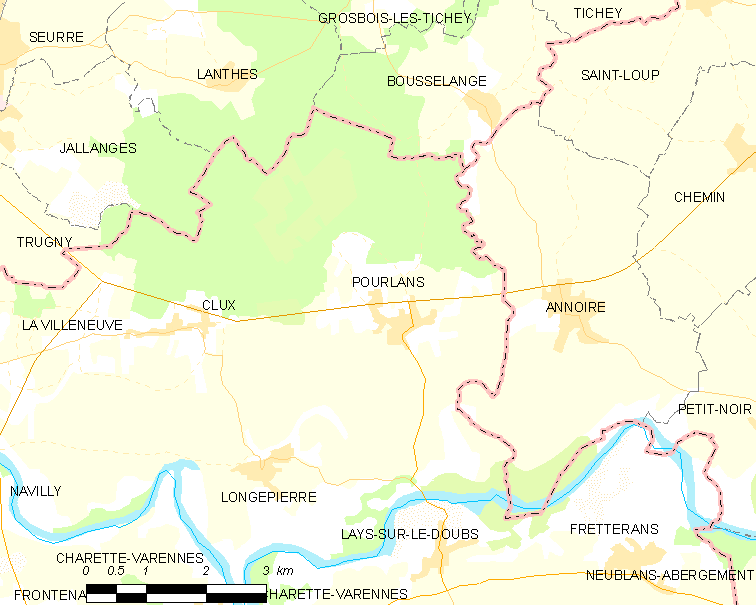 Map of French municipality